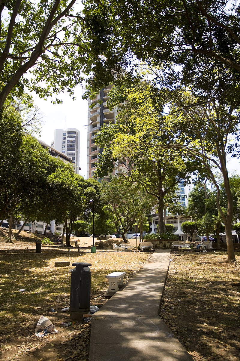 Walking around town we stumbled across this small park. It was quite lovely.